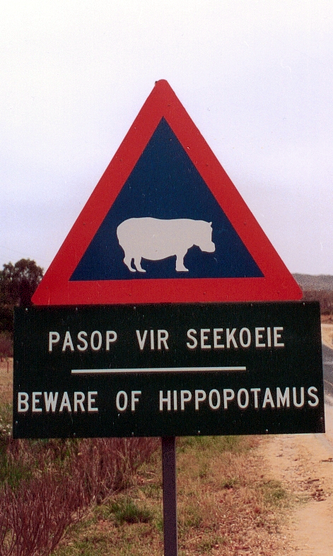 This is a photo of a bilingual animal warning traffic sign in the Transvaal, at the approach to Kruger National Park. The sign features two distinct parts: The upper part is the outline of a white hippopotamus on a blue triangular field with a red border. The lower part is white text in two lines separated by a horizontal bar, all on a dark green field. The top line is in Afrikaans and reads "PASOP VIR SEEKOEIE". The bottom line is in English and reads "BEWARE OF HIPPOPOTAMUS".